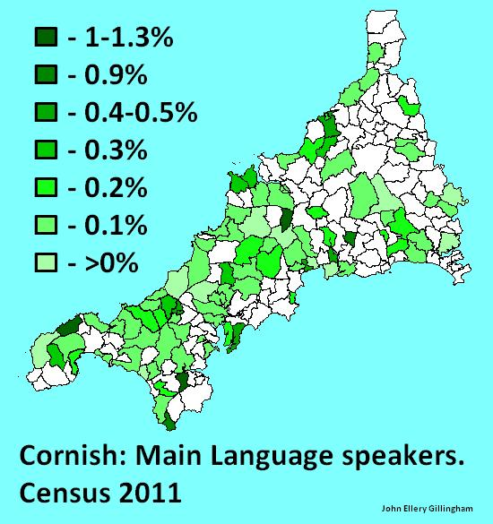 The percentage of people who recorded their main language as being Cornish in each civil parish in Cornwall.